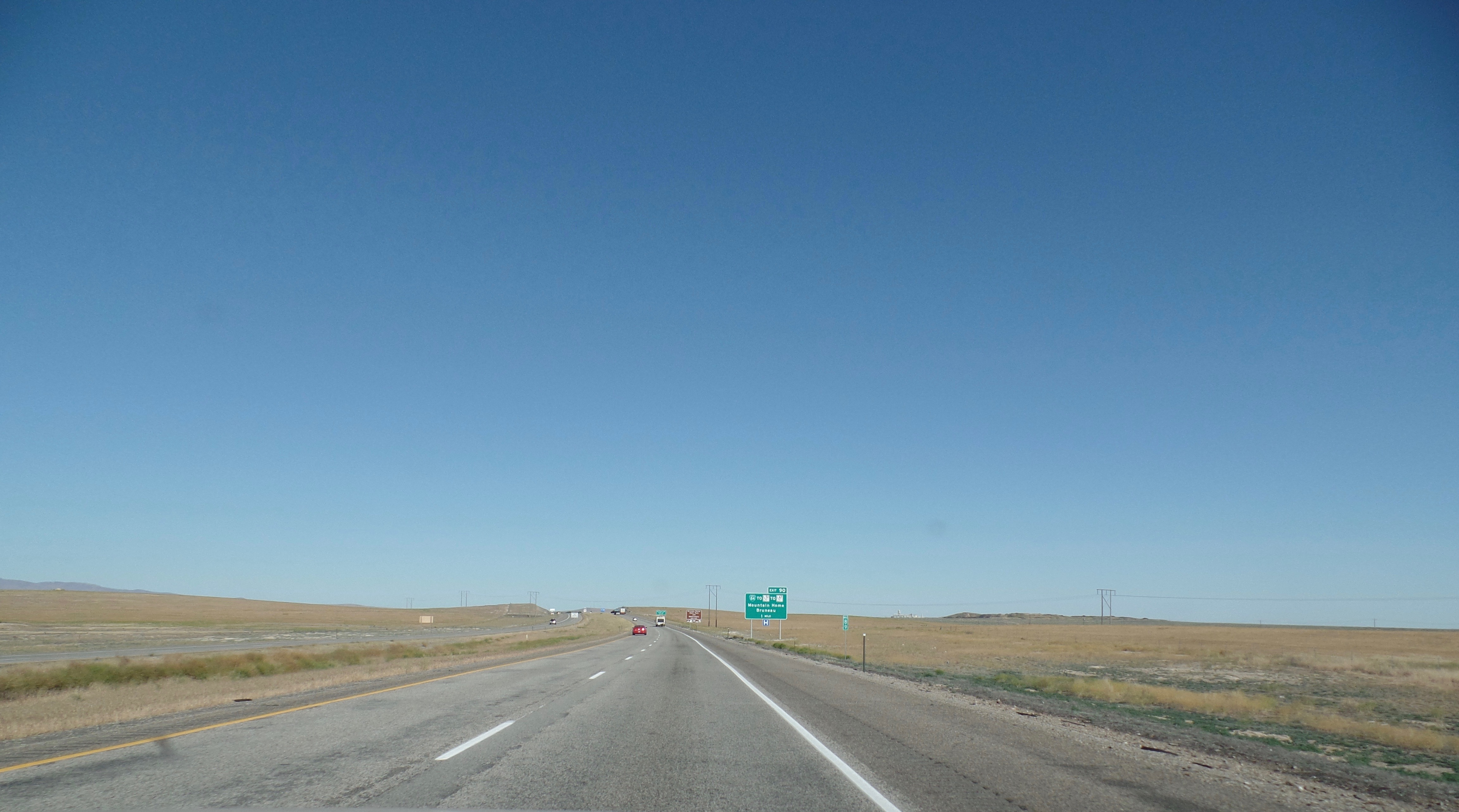 I-84 west of Mountain Home